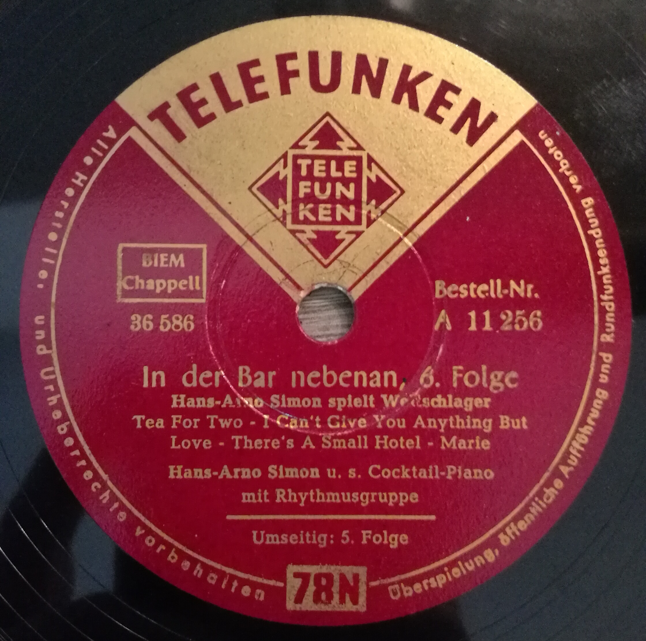 Shellac record label of a Telefunken record. Visible N symbol signalling the use of normal (metal) needles for wide grooves and 78 RPM indicator.